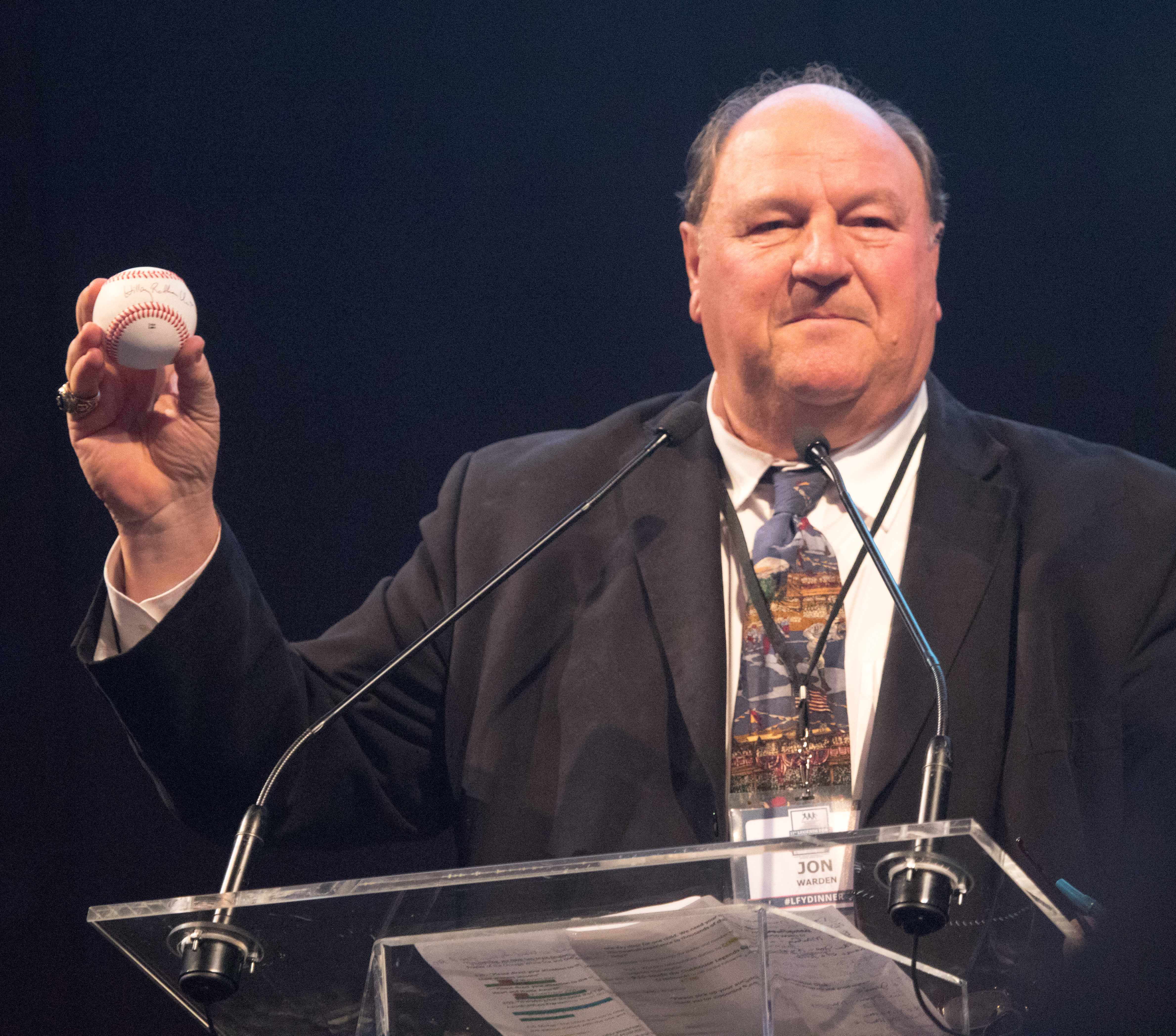 Former big leaguer Jon Warden emcees the auction during the MLBPAA's 2016 Legends for Youth Dinner.